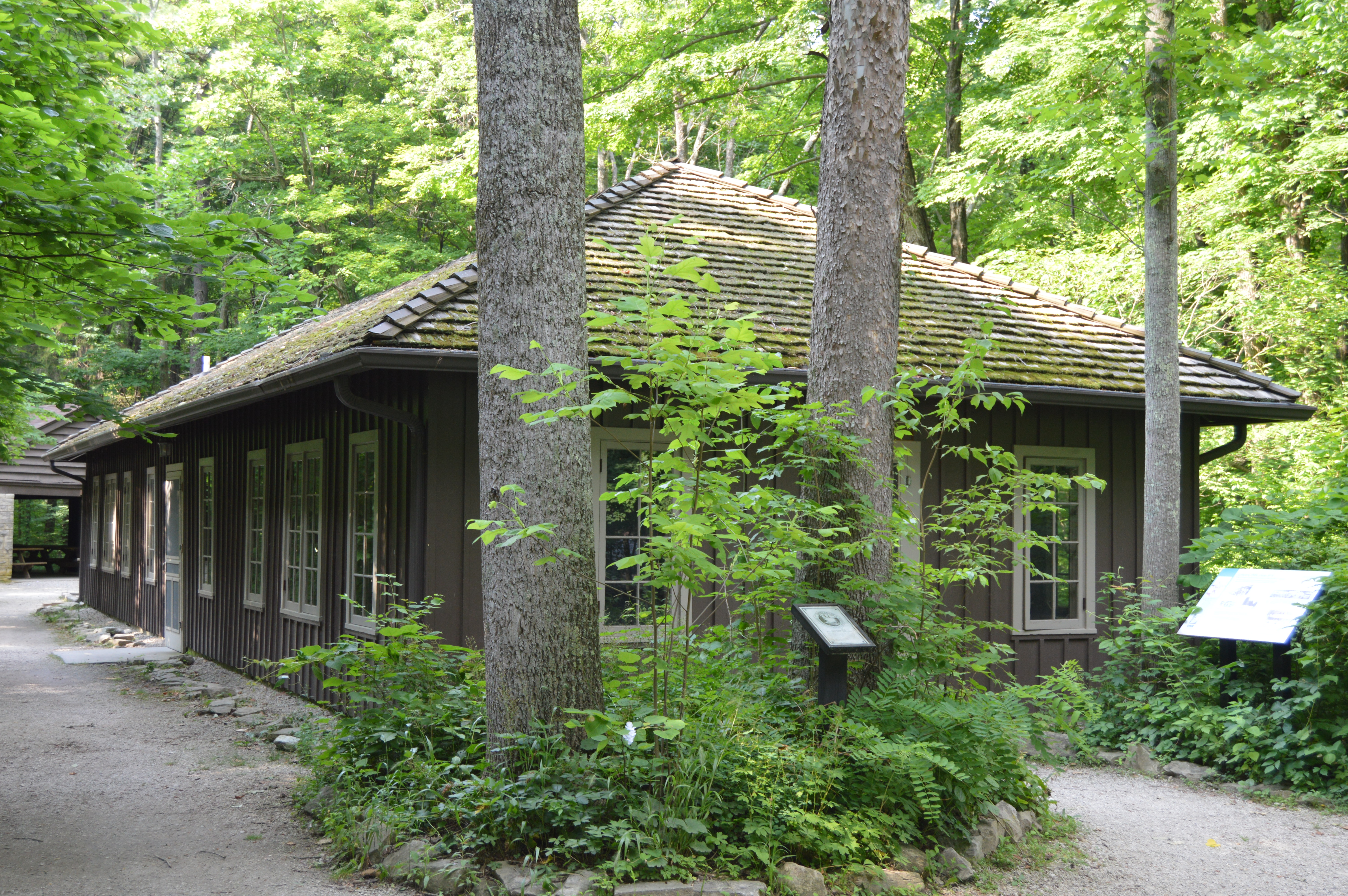 Front and western side of the CCC Recreation Building-Nature Museum, located in McCormick's Creek State Park east of Spencer in Washington Township, Owen County, Indiana, United States. Built by the Civilian Conservation Corps in 1936, it is listed on the National Register of Historic Places.